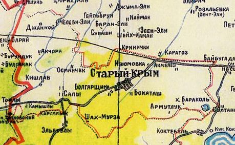 Starokrimsky district, Crimea. 1922